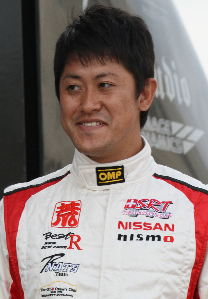 Motorsport Japan 2010: Seiji Ara (Swiss Racing Team / FIA GT1)